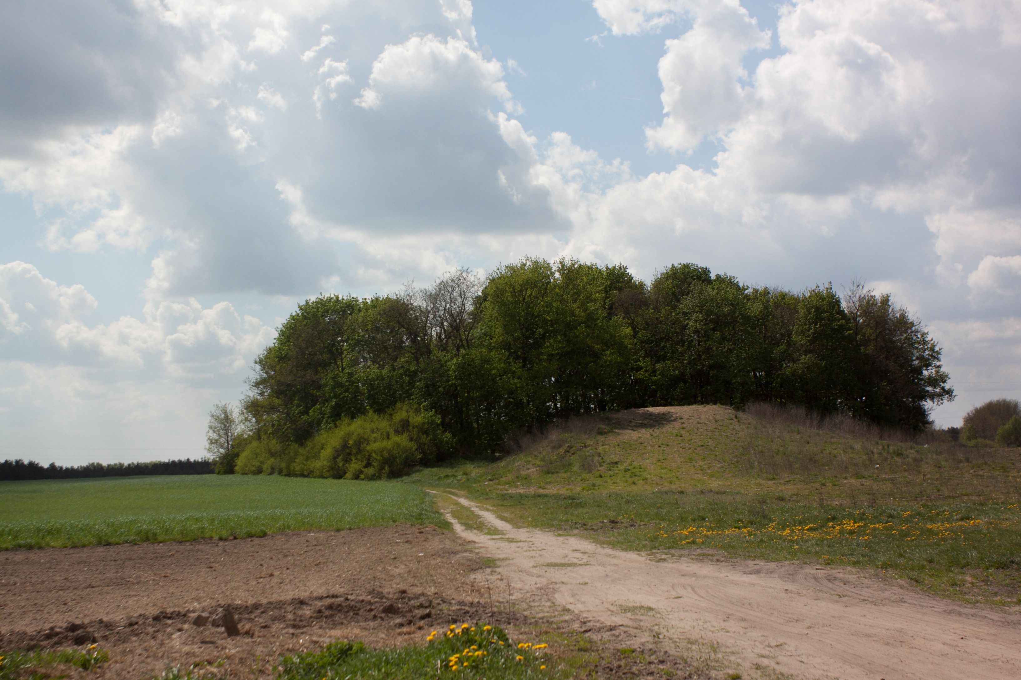 Protestant cemetery in Biskupice, Poland